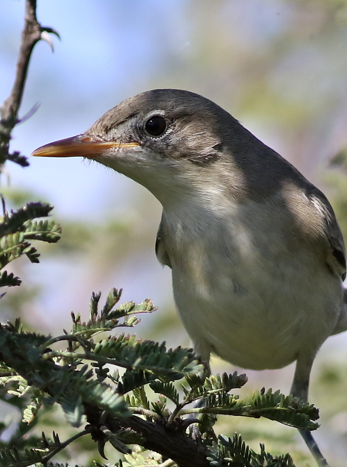 Olive-tree warbler, Hippolais olivetorum, at Zaagkuildrift Road near Kgomo Kgomo, Limpopo, South Africa